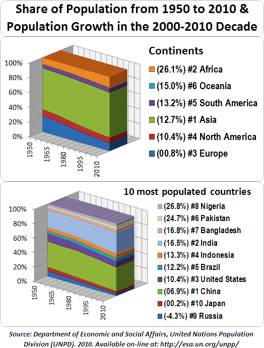 World Population by Continent and 10 Most Populated Countries. Charts on the left: Top: % Share of (World) Population from 1950 to 2010 Bottom: % Share of Population (of the present top ten most populated countries) from 1950 to 2010 Columns on the right: --.-%: Population Growth in the 2000-2010 Decade (descending order) #--: Rank by population size -------: Continent/Country name